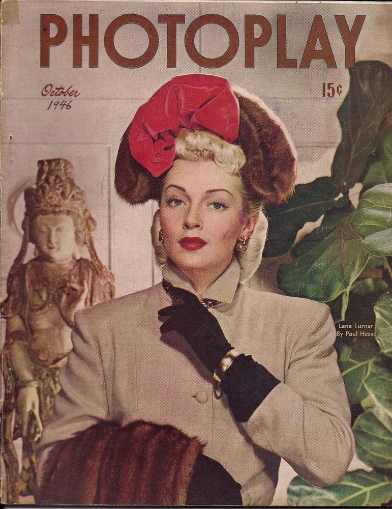 Cover of Photoplay, October 1946